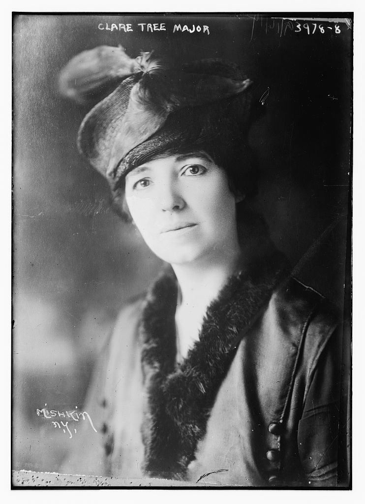 Clare Tree Major (1880-1954) portrait circa 1915